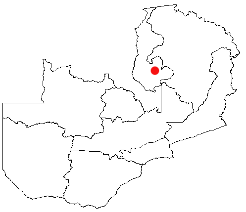 Samfya, Zambia Location Map; created with the GIMP. Made by User:Acntx.